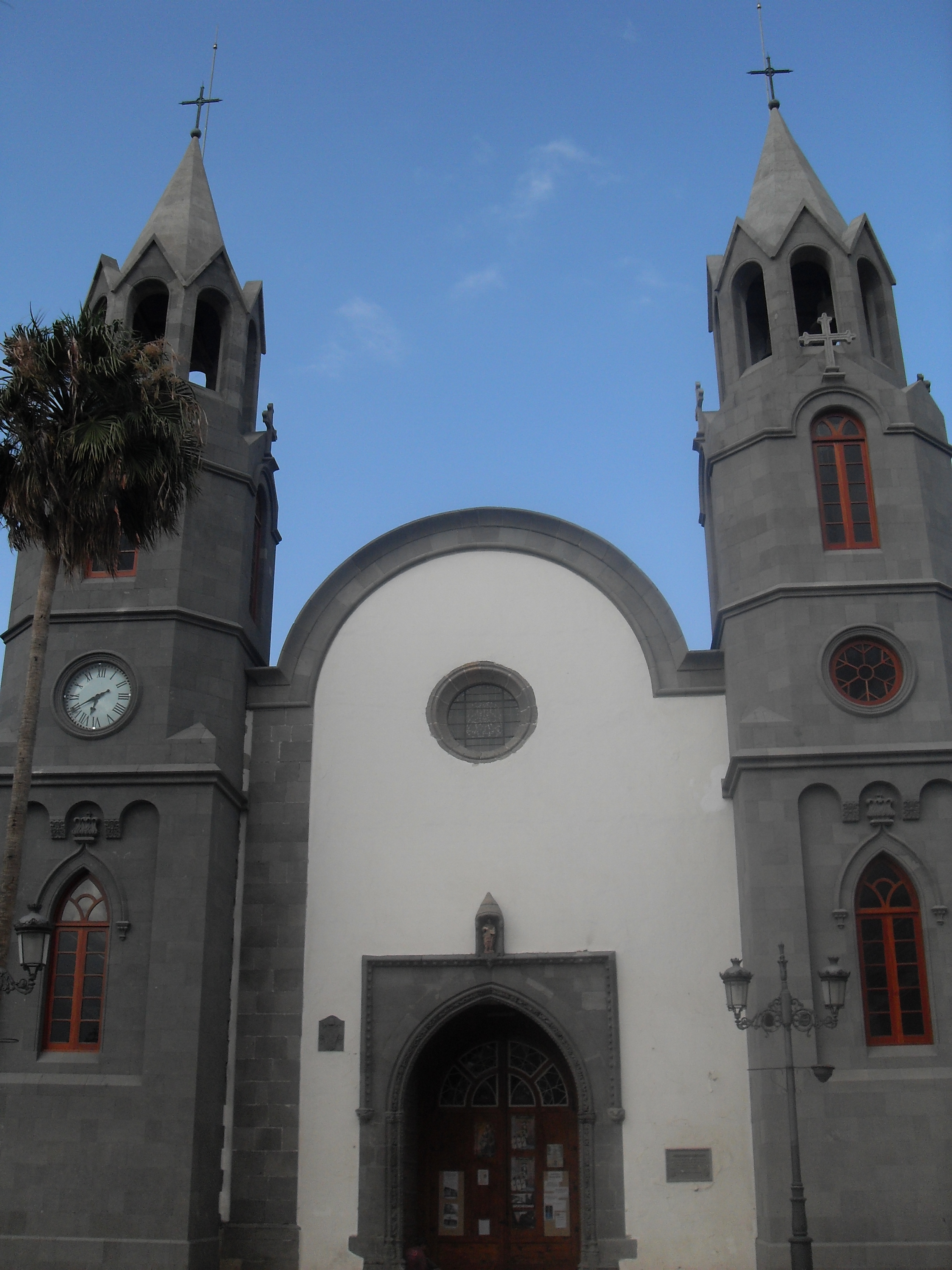 Basilica de San Juan Bautista y Real Santario del Santísimo Cristo de Telde